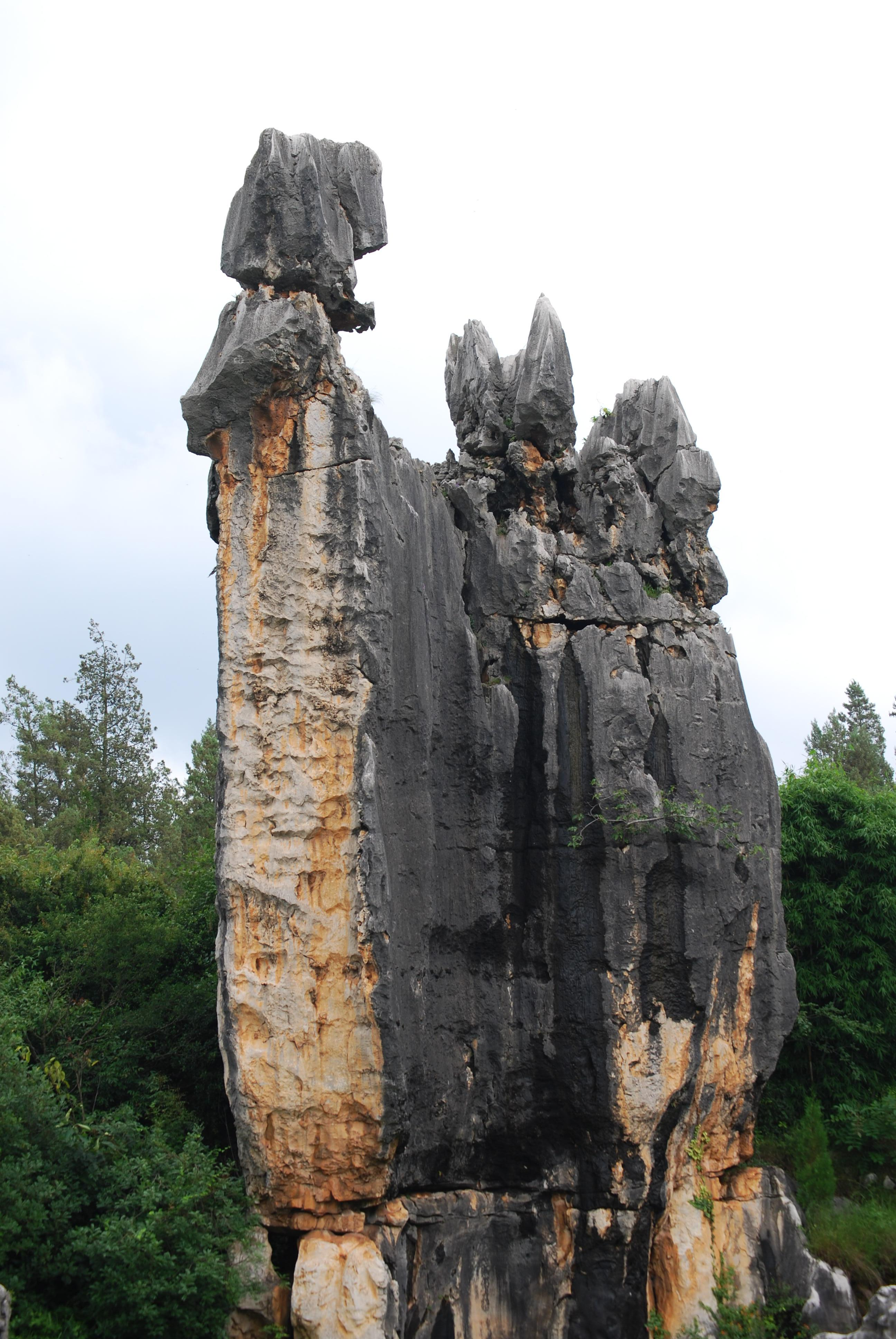 Ashima in Shilin Yunnan